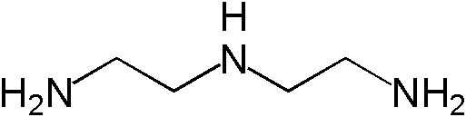 chemical structure of diethylene triamine